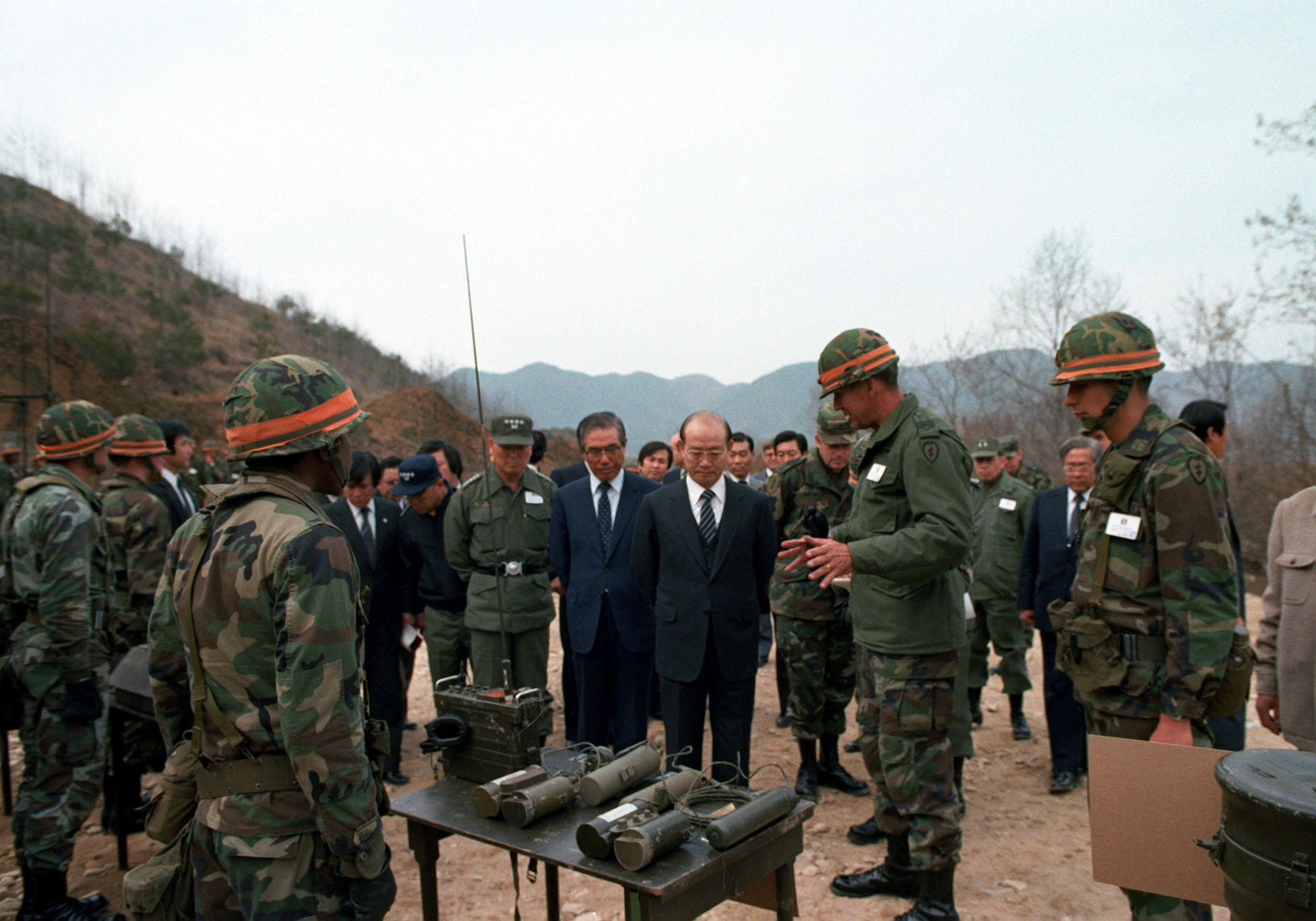 DA-SC-84-05654 Republic of Korea President Chun Doo Hwan (center) views a display of tactical equipment as Major General William H. Schneider, Commander of the 25th Infantry Division escorts him on a tour of the 25th Infantry Division headquarters during the joint ROK/US training Exercise TEAM SPIRIT '83.